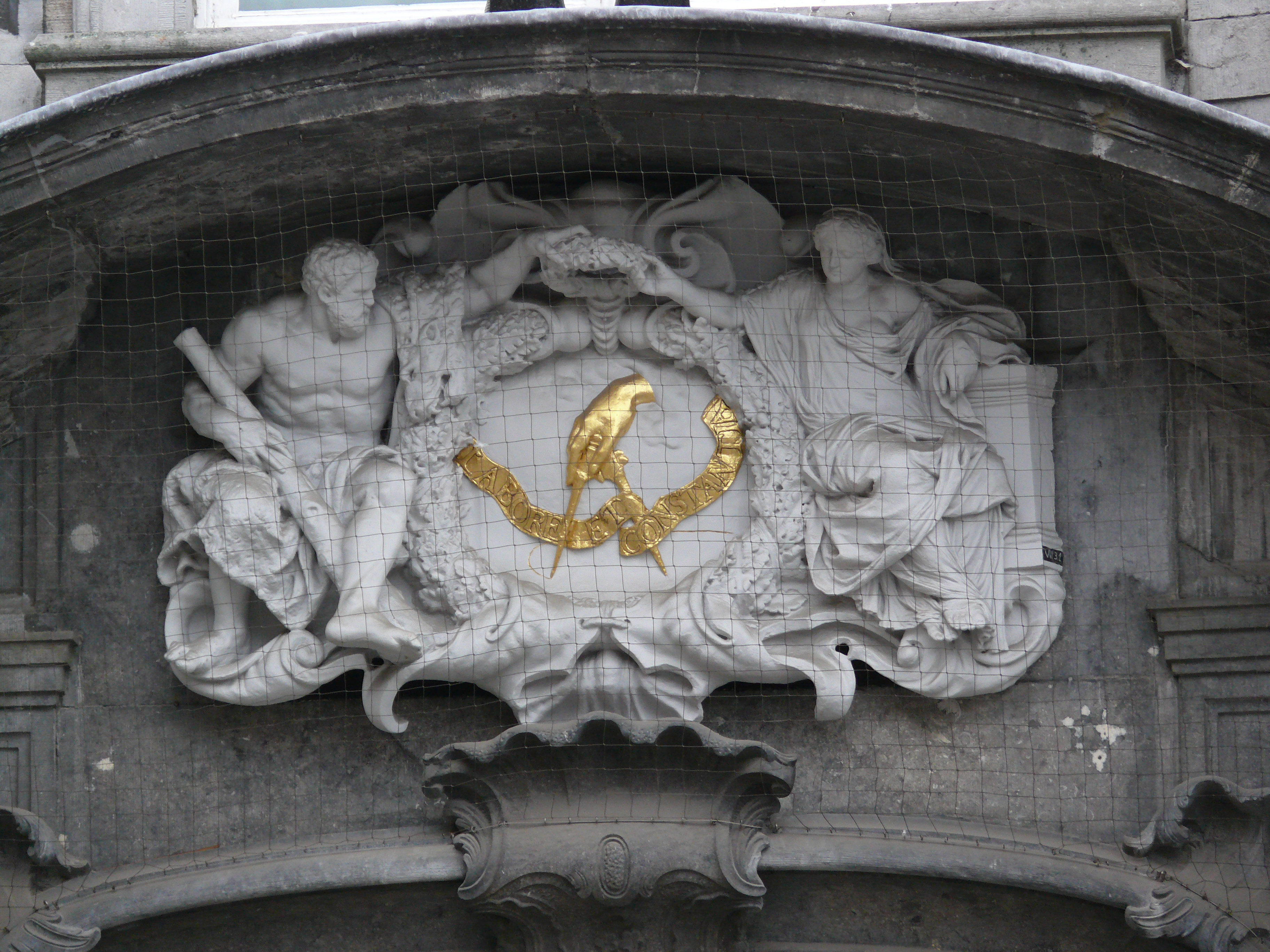 Relief with Plantin's printer's mark above the door of the Museum Plantin Moretus (Antwerp).